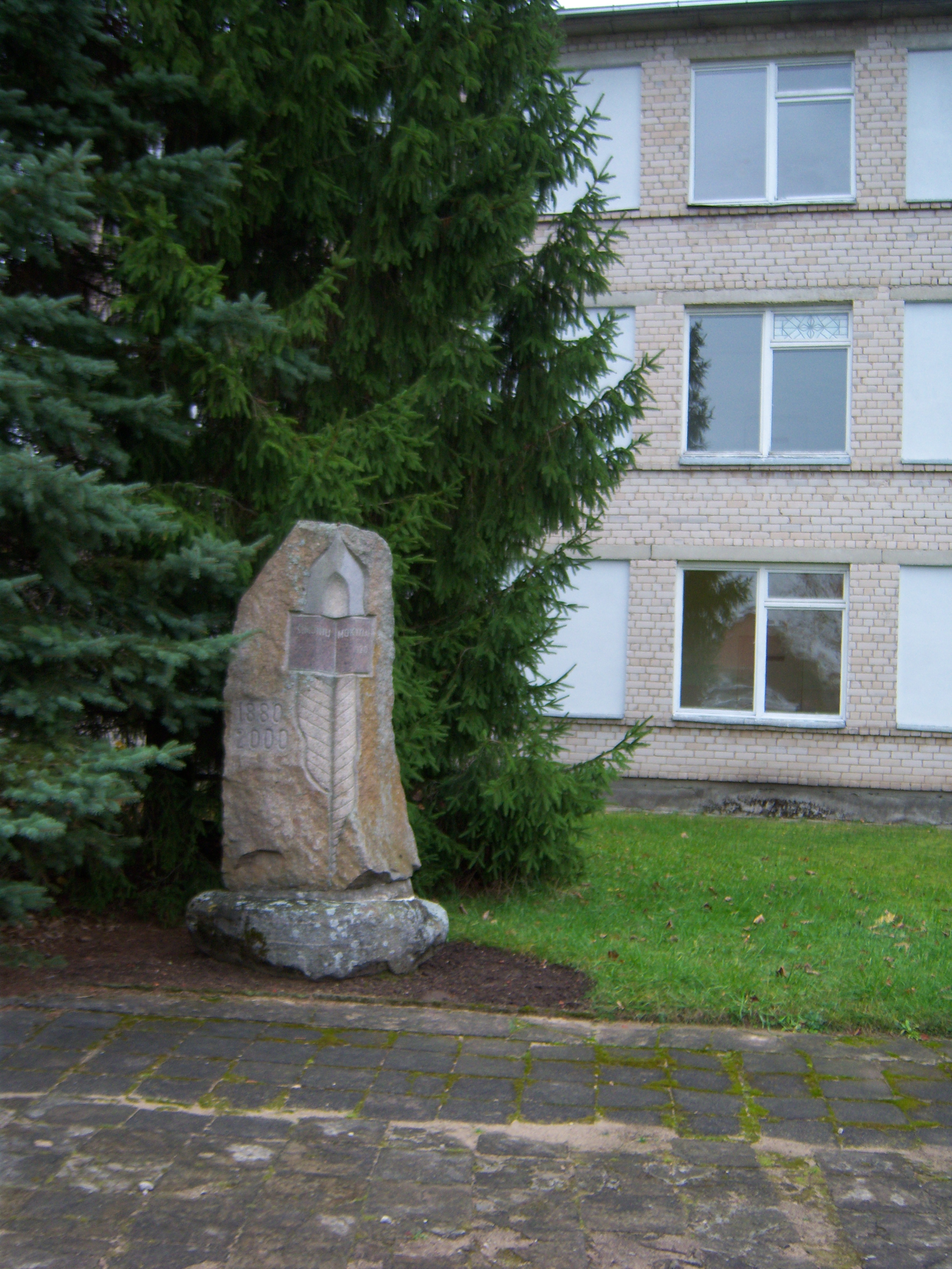 Stone, Šimonys Main School, Kupiškis District, Lithuania